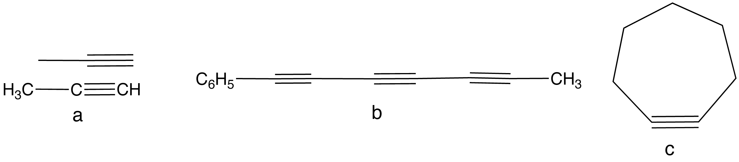 structure of 3 alkynes